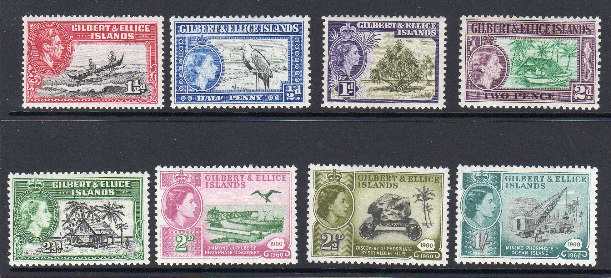 1939_&_1956 stamps of the Gilbert and Ellice Islands.